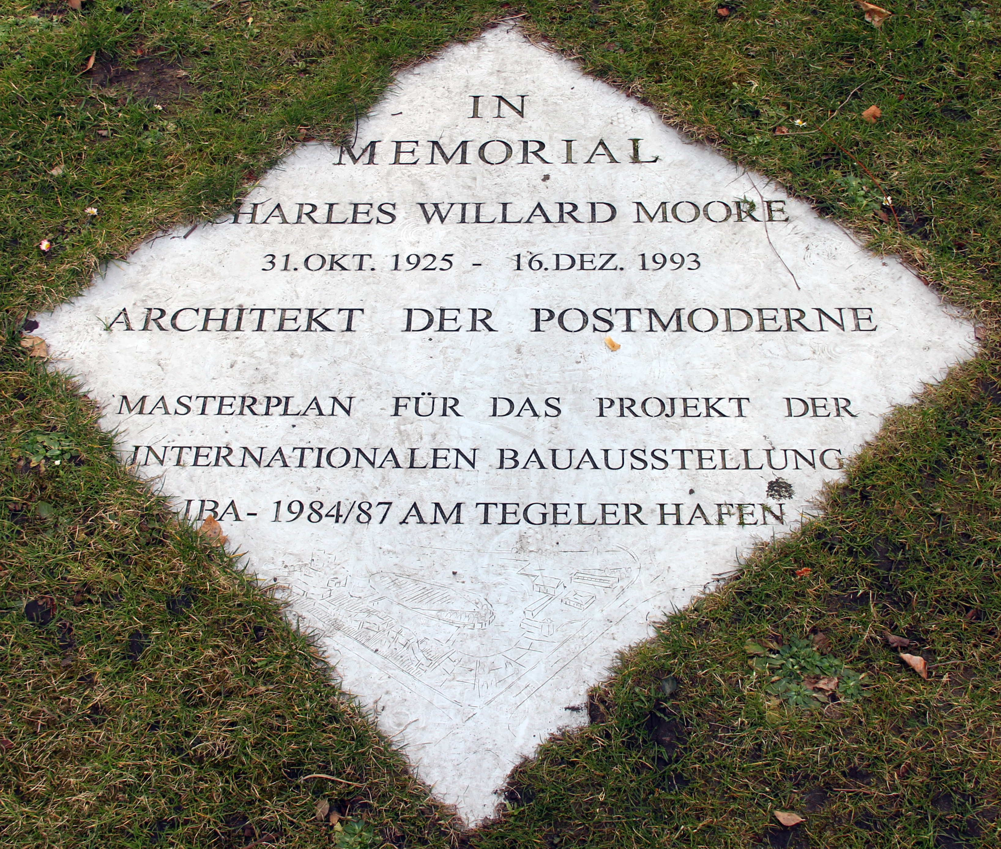 Memorial plaque, Charles Willard Moore, Am Tegeler Hafen 30, Berlin-Tegel, Germany